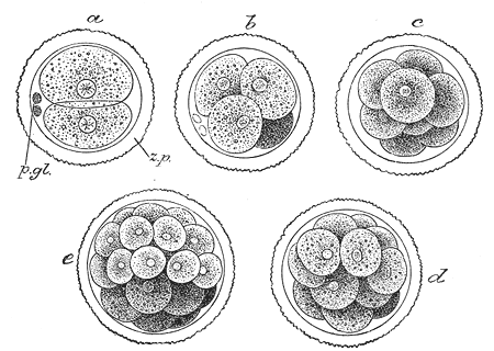 First stages of division of mammalian embryo. Semidiagrammatic. (From a drawing by Allen Thomson.) z.p. Zona striata. p.gl. Polar bodies. a. Two-cell stage. b. Four-cell stage. c. Eight-cell stage. d, e. Morula stage.